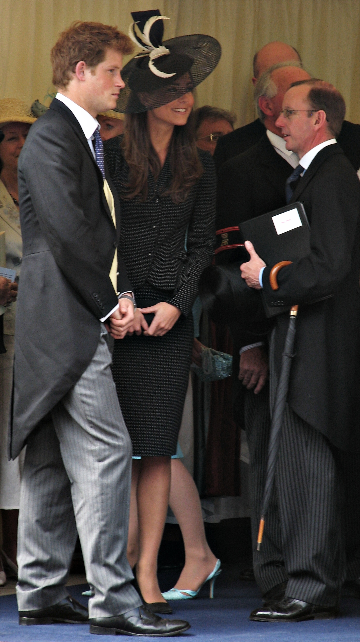 Prince Harry and Kate Middleton at Prince William's Order of the Garter investiture